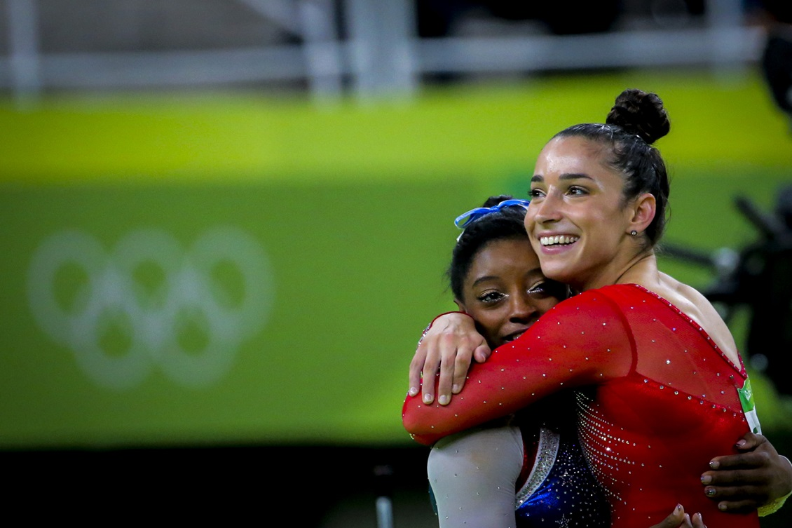 Simone Biles (left, gold) and Alexandra Raisman (silver), both from the USA, at the Olympic Games in Rio after competitions in all-round